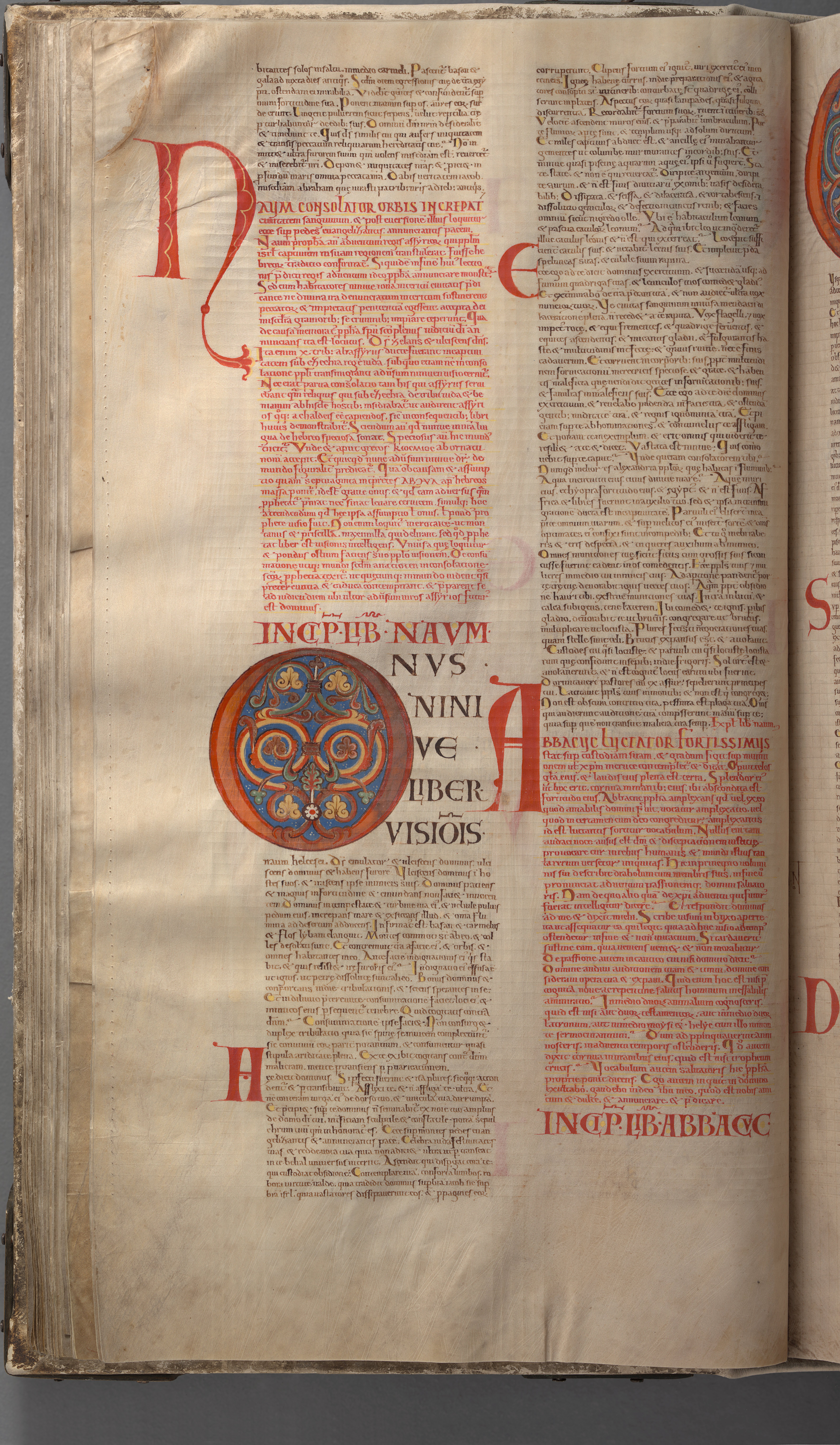 Giant Book) is the largest extant medieval manuscript in the world. It is also known as the Devil's Bible because of a large illustration of the devil on the inside and the legend surrounding its creation. It is thought to have been created in the early 13th century in the Benedictine monastery of Podlažice in Bohemia (modern Czech Republic). It contains the Vulgate Bible as well as many historical documents all written in Latin. During the Thirty Years' War in 1648, the entire collection was taken by the Swedish army as plunder, and now it is preserved at the National Library of Sweden in Stockholm, though it is not normally on display. This page contains the last part of the book of Micah and the whole part of the book of Nahum.